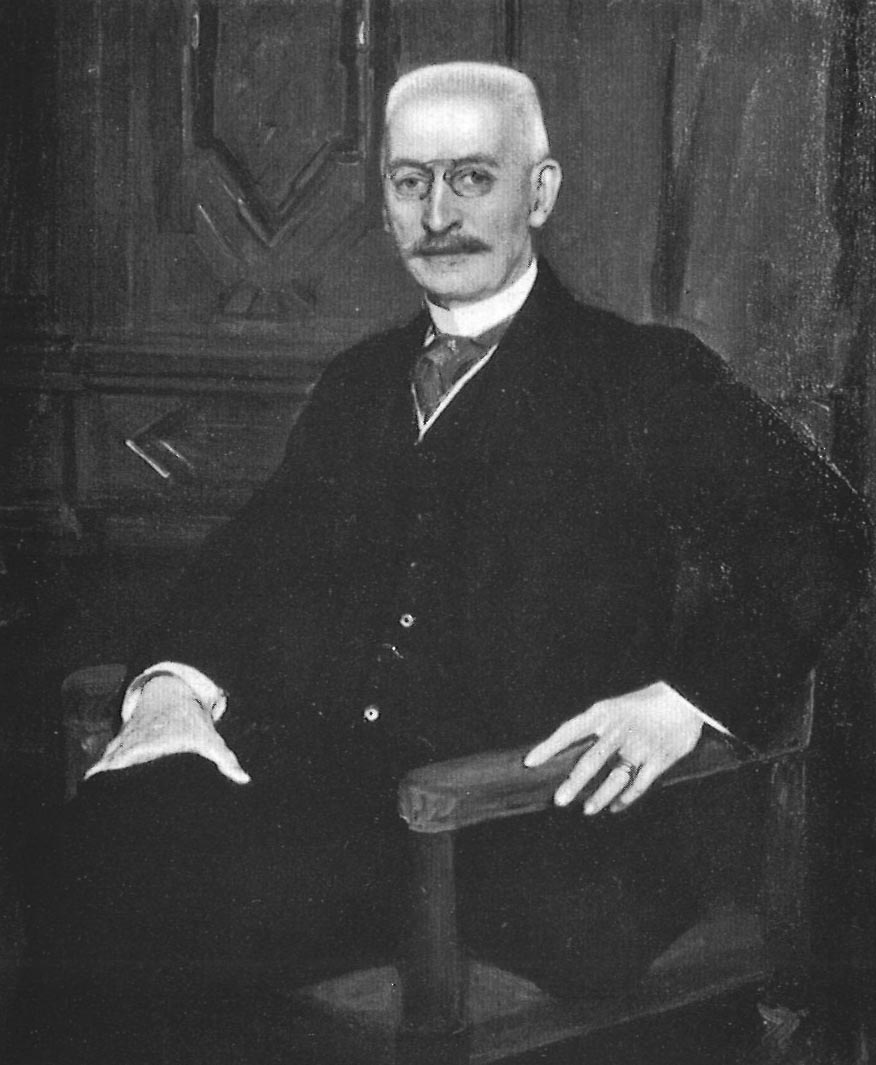 Wilhelm Leche (1850-1927), Swedish zoologist and professor at Stockholm University College. Painting by Oscar Björck 1910.